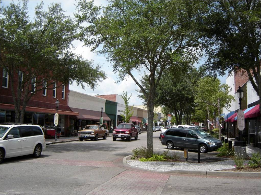 A view of East Washington Street in downtown Walterboro, South Carolina